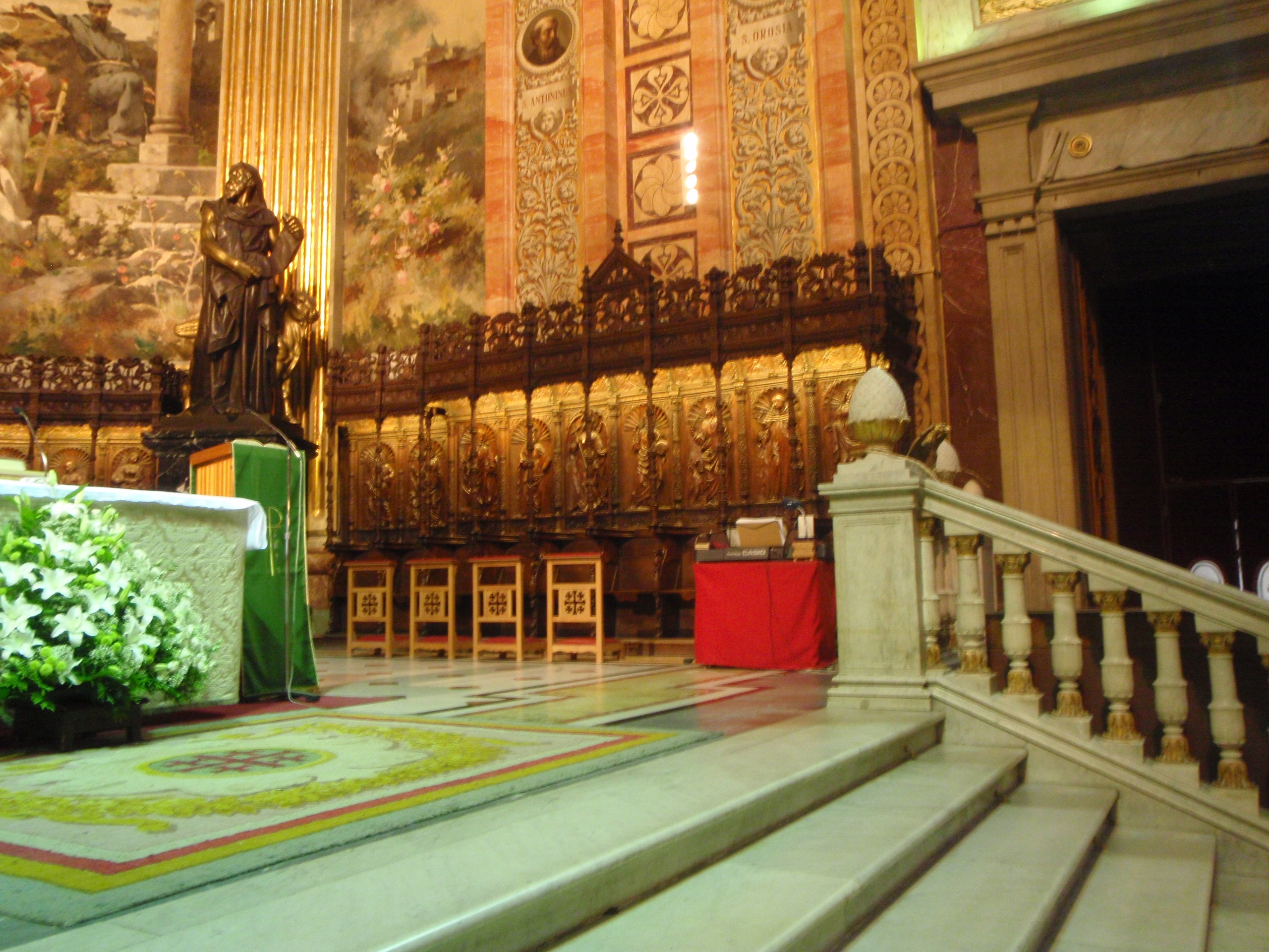 Church of San Francisco el Grande, Madrid, Spain